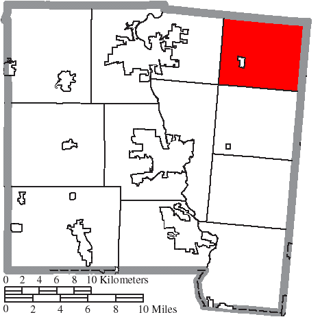 Map of the municipal and township boundaries of Miami County, Ohio, United States, as of the 2000 census, with the location of Brown Township highlighted. Township borders are shown only in unincorporated areas in order to differentiate incorporated and unincorporated areas more clearly.